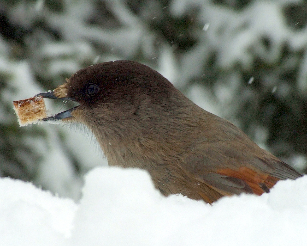 A Siberian Jay (Perisoreus infaustus) in Kittilä, Finland